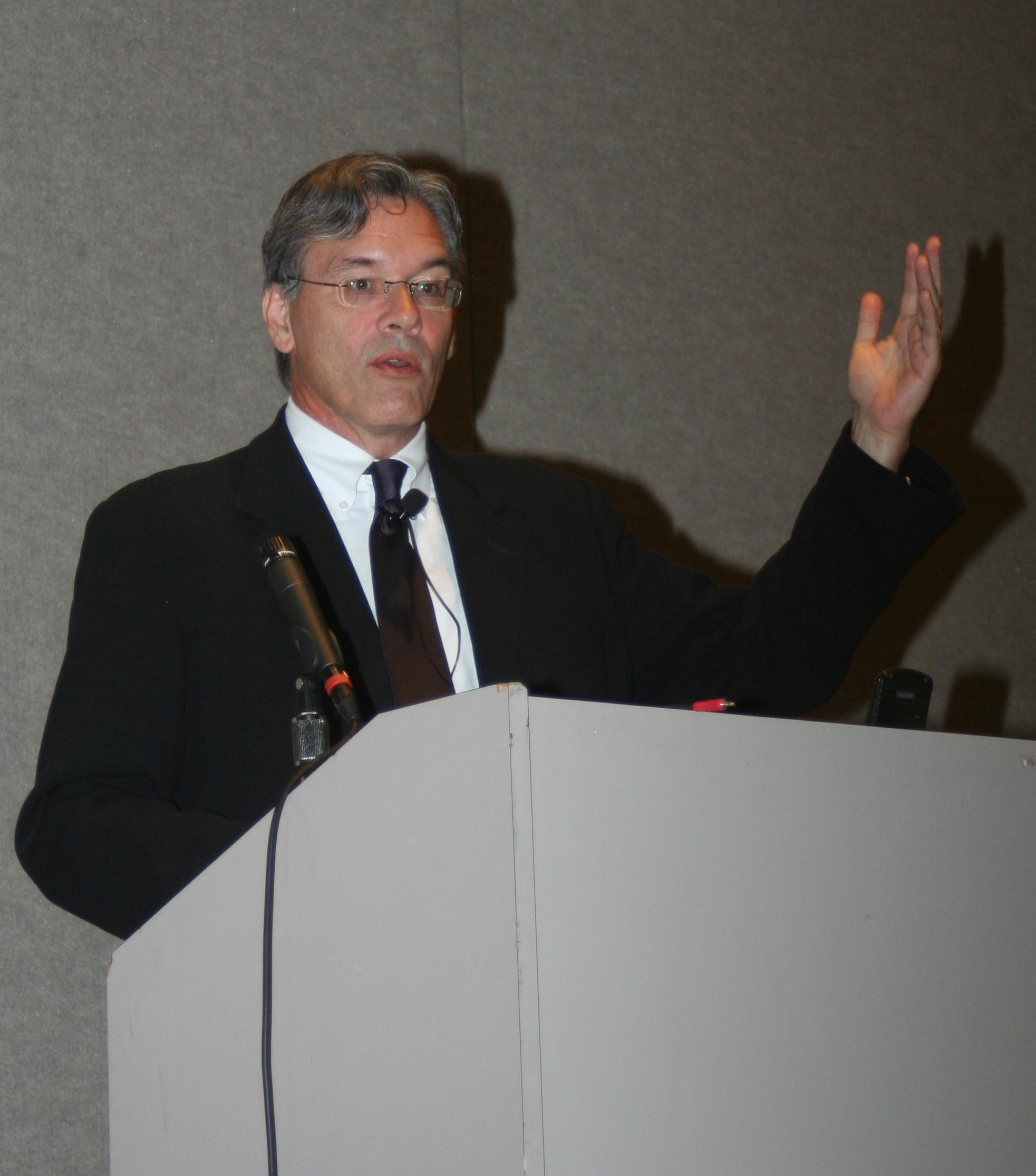 Crop of Robert X. Cringely delivers the keynote address at codi2006